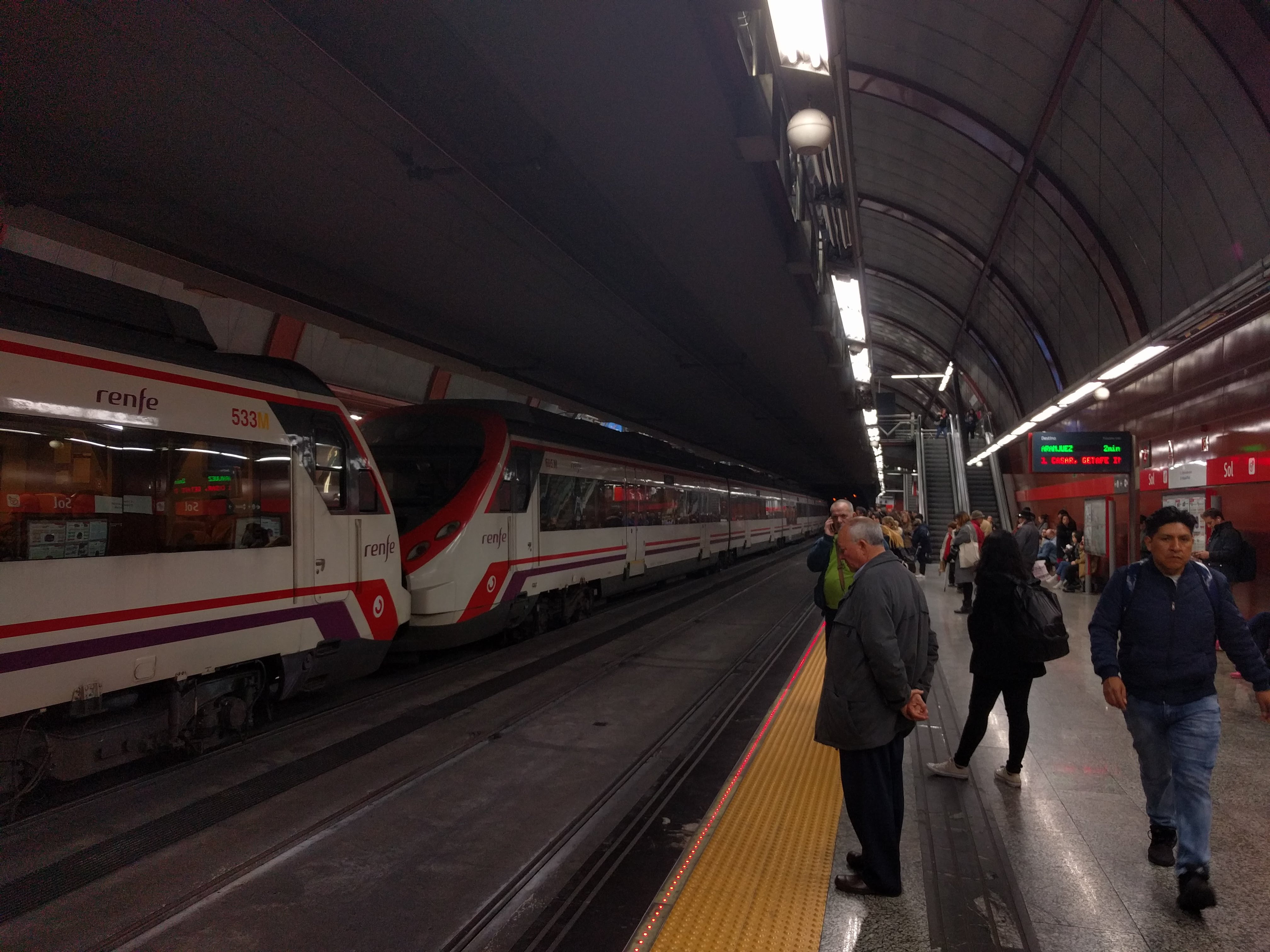 Platforms for Cercanías trains at Sol Station